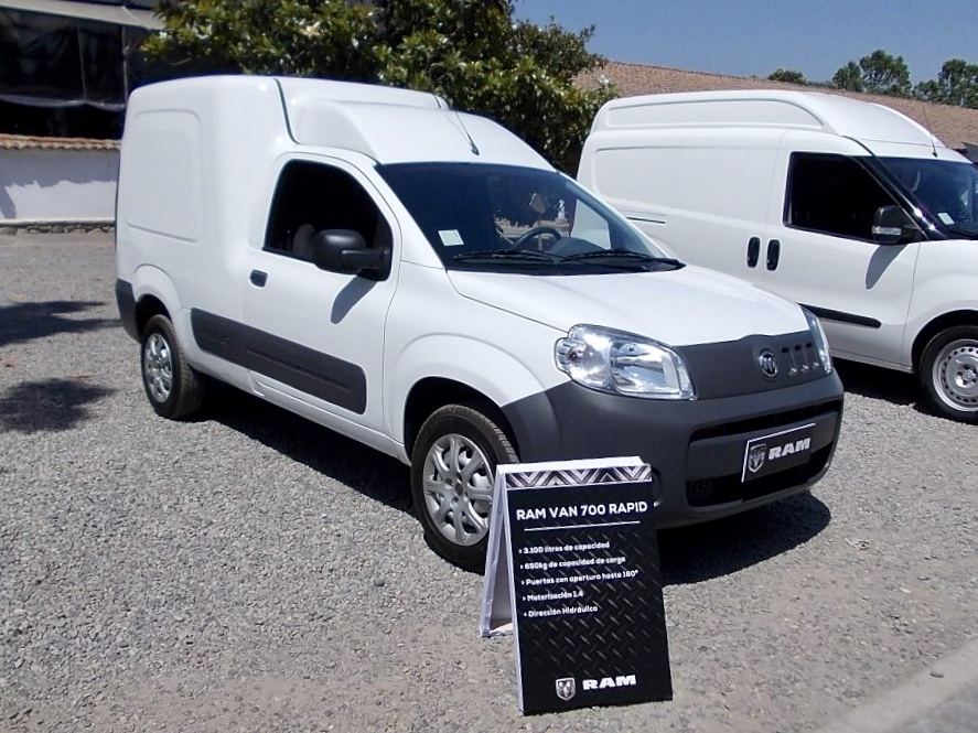 The RAM V700 Rapid in Chile, rebadged brazilian Fiat Fiorino Cargo